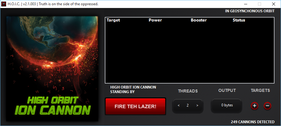 Screenshot of High Orbit Ion Cannon's GUI with target not yet set